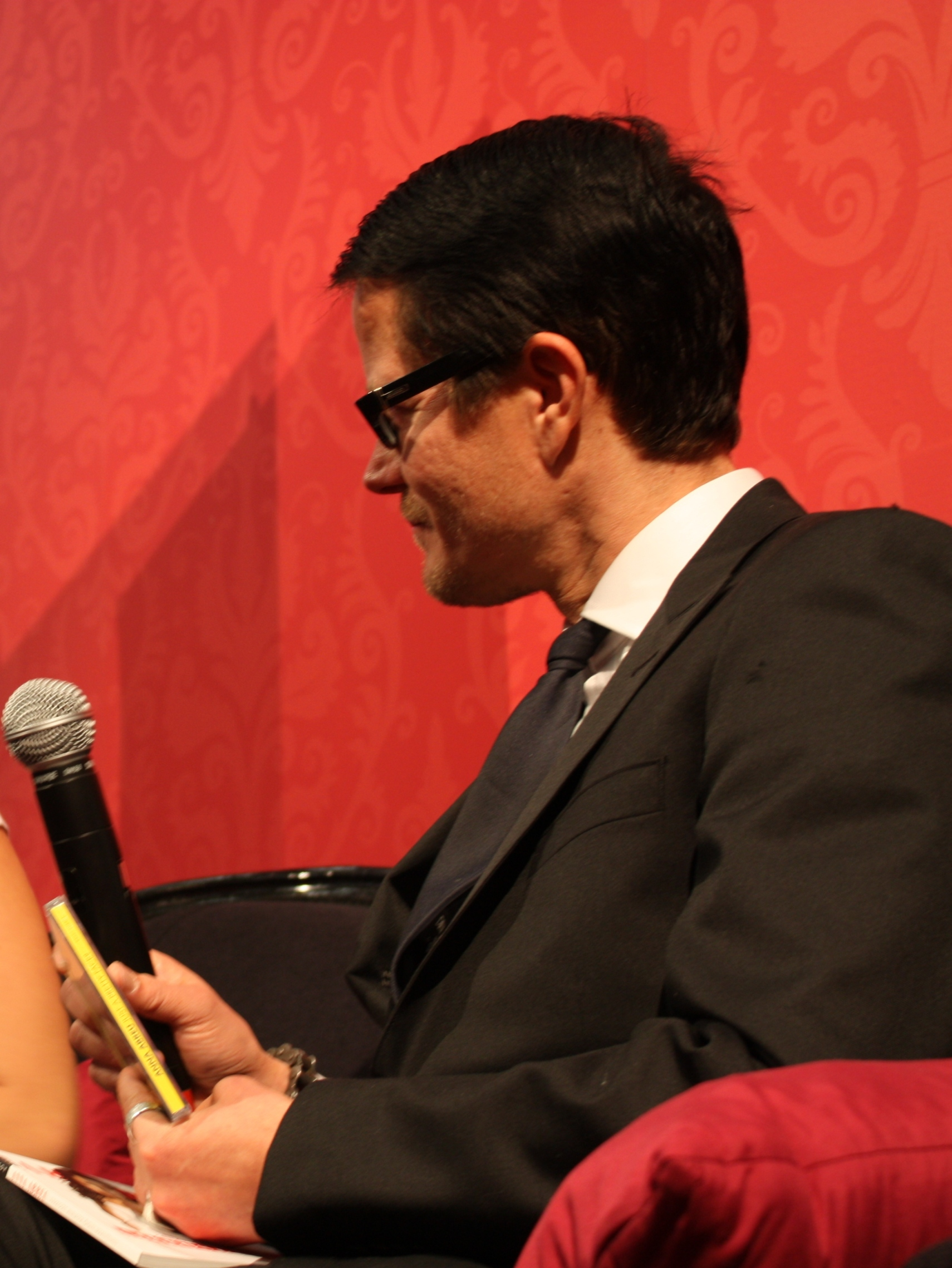 Tv presenter Wallu Valpio at Helsinki Book Fair in 2009.